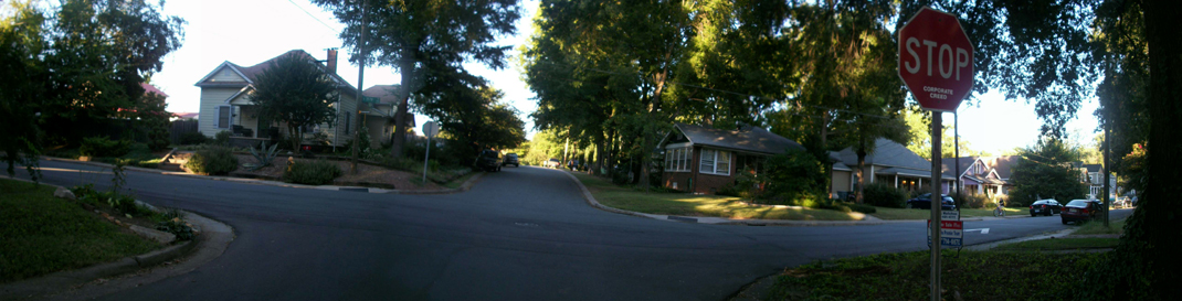 North Charlotte's Neighborhood in Highland Mill Village Houses